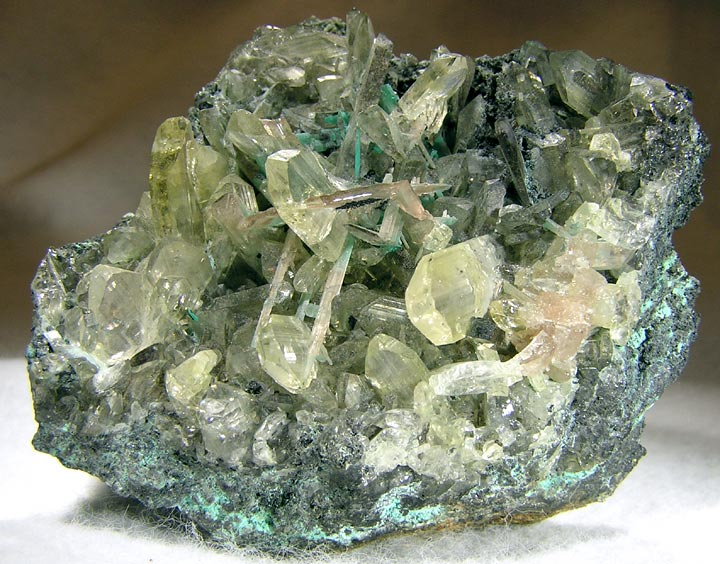 Anglesite Locality: Mibladene (Mibladén; Mibladan; Miblanden), Upper Moulouya lead district, Midelt, Khénifra Province, Meknès-Tafilalet Region, Morocco (Locality at ) A dozen very gemmy, sharp, fine and lustrous golden anglesite crystals, with textbook form, rising here and there on the matrix, which slopes back to show them at their best. It is unusual to see so many gemmy crystals next to one another in a rich piece such as this. 8 x 5.5 x 5 cm